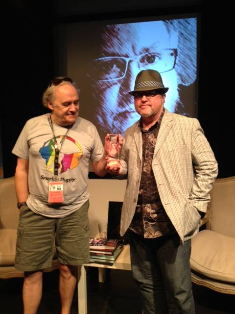 Montreal Jazz Festival co-founder and artistic director Andre Ménard presents the Bruce Lundvall Award, given annually to an individual who has left a mark on the world of jazz or contributed to the development of the music through the media, the concert or record industries, to jazz journalist Bill Milkowski at a press conference during the 2015 festival. Photo by Lauren Zarambo.